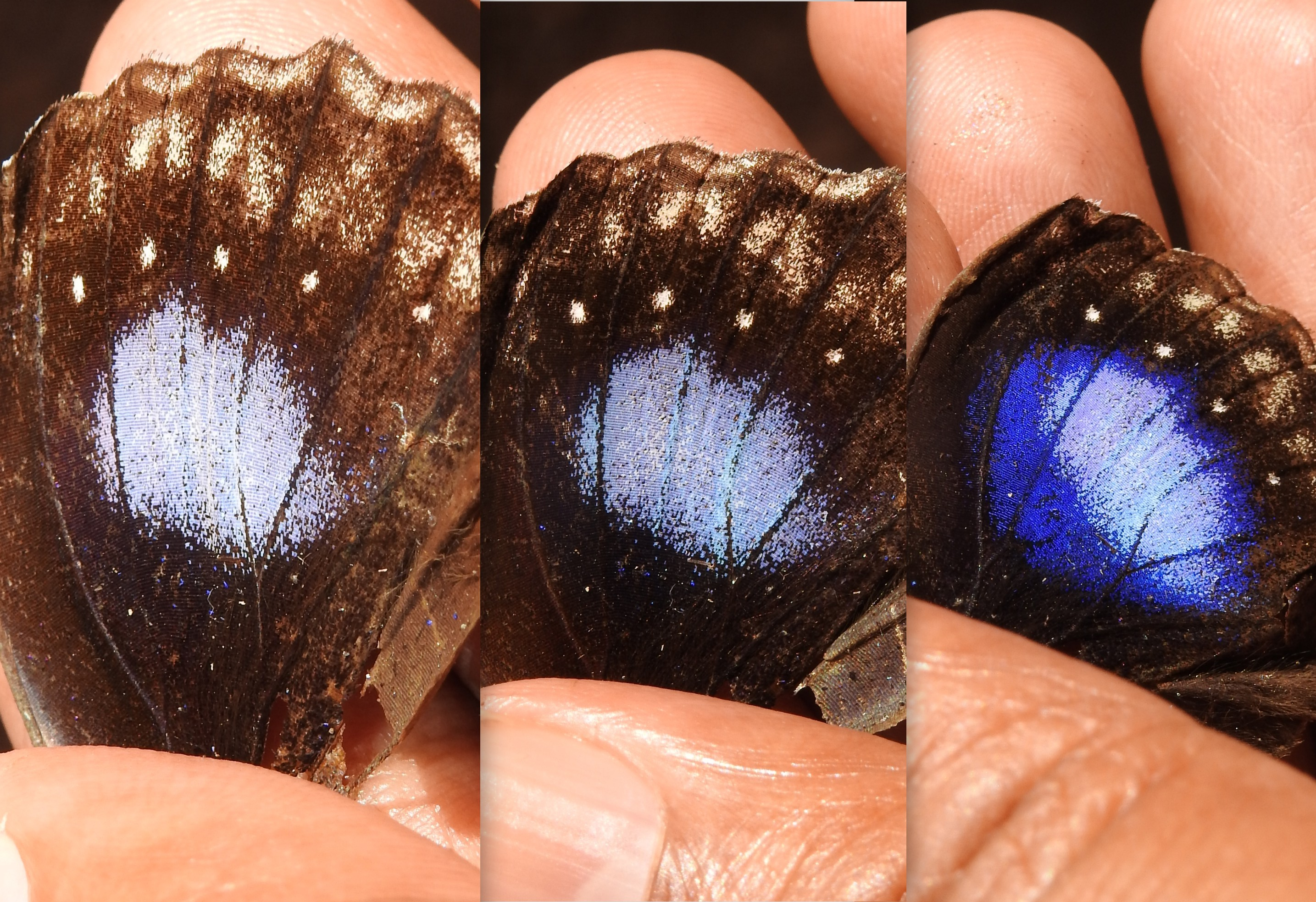 Great Eggfly Hypolimnas bolina butterfly wing showing structural colouration. Collage of three photographs of the same wing taken from slightly different angles.